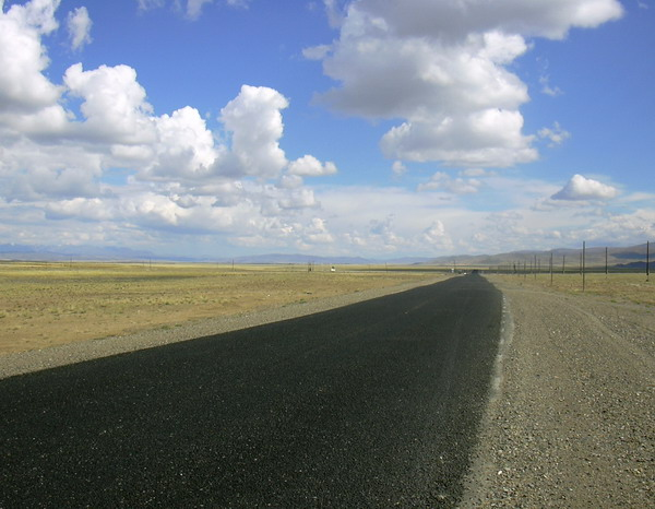 The Chuysky Trakt in the Chuya Steppe, Kosh-Agach Rayon of the Altai Republic